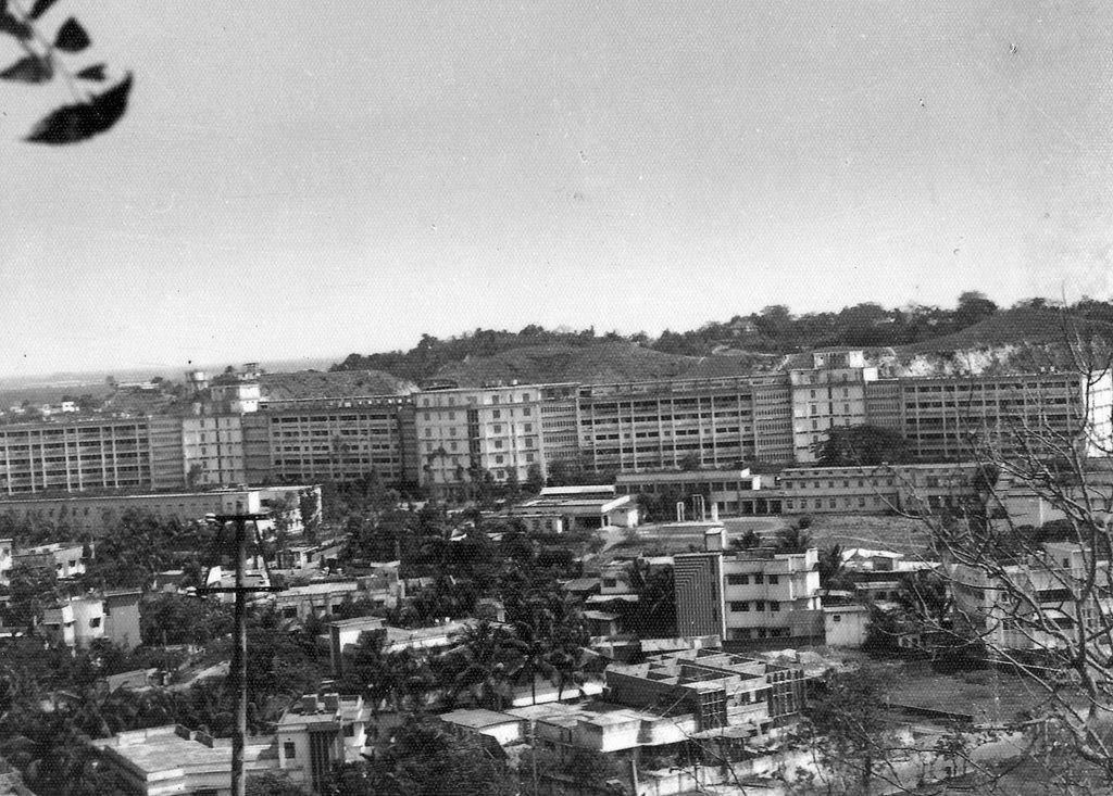 Chittagong Medical College 1960 Uploader: Rahat